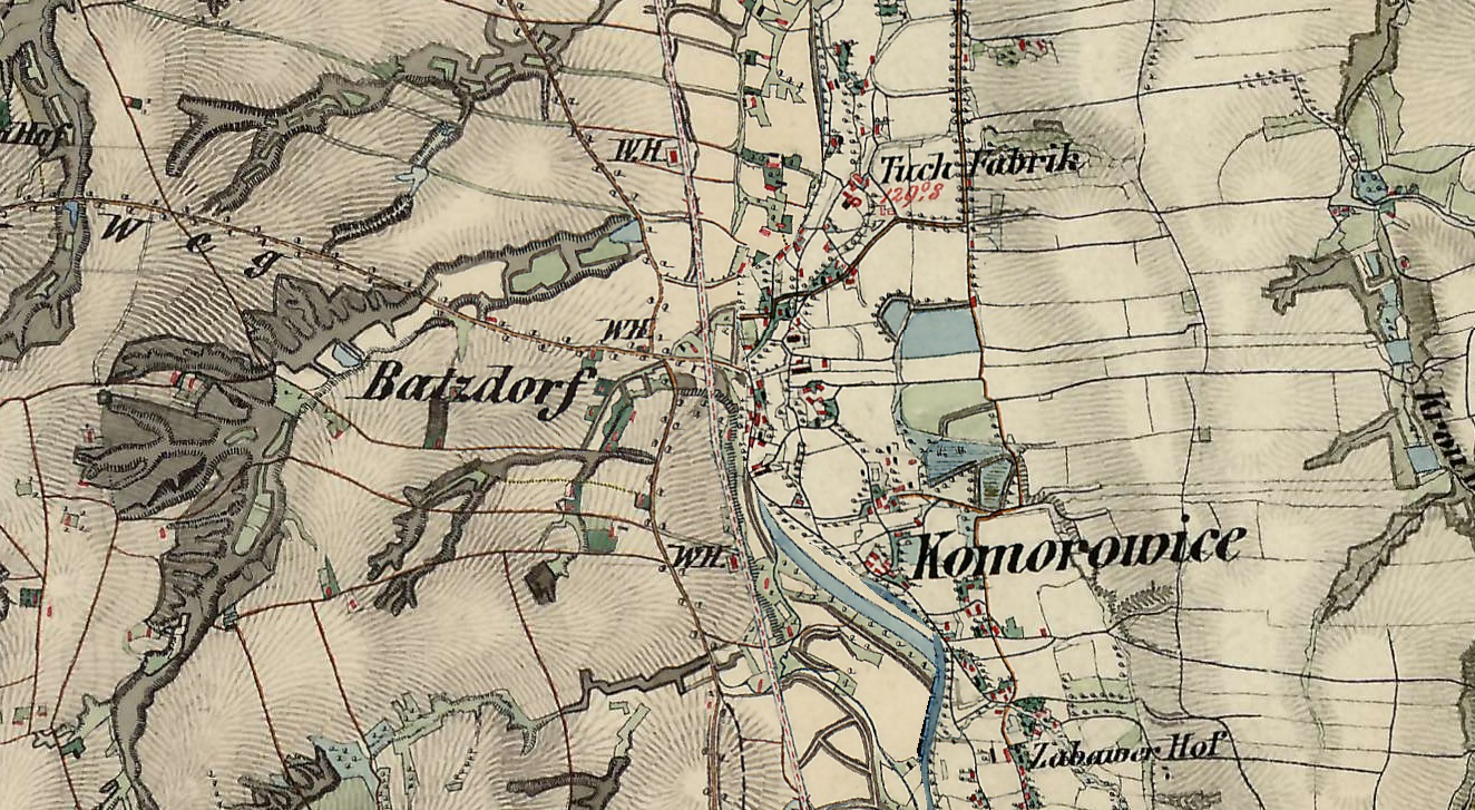 Austrian topographic map of Komorowice (Batzdorf), a district of Bielsko-Biała.